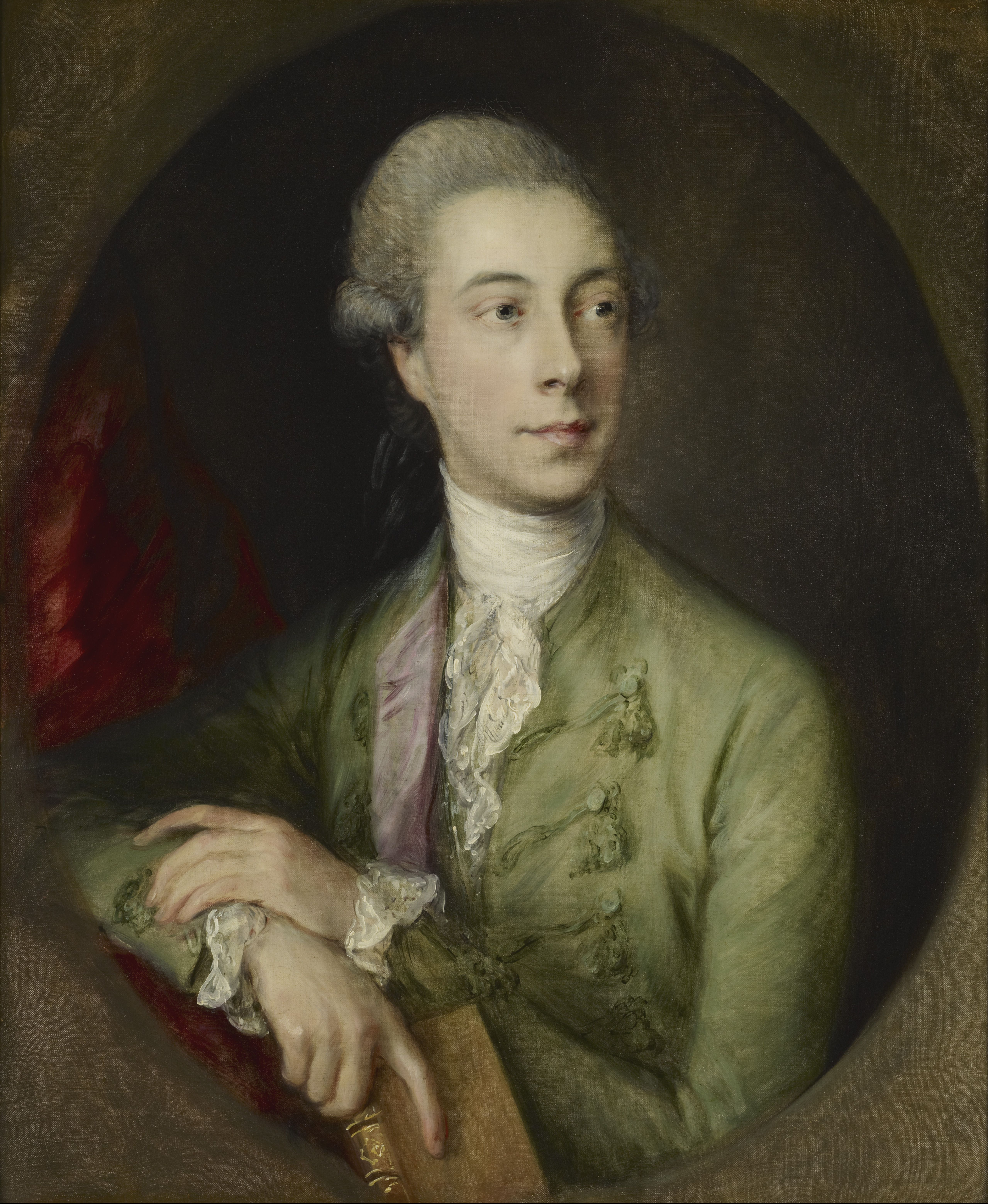 Portrait of Richard Paul Jodrell (1727 - 1788)